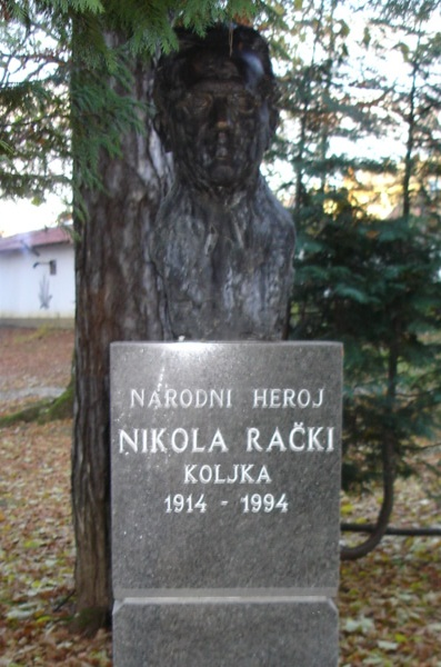 Bust of People's hero of Yugoslavia, Nikola Rački, Park of the People's heroes in Delnice.